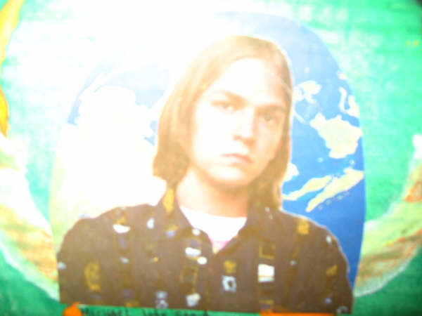 Michael J Straub